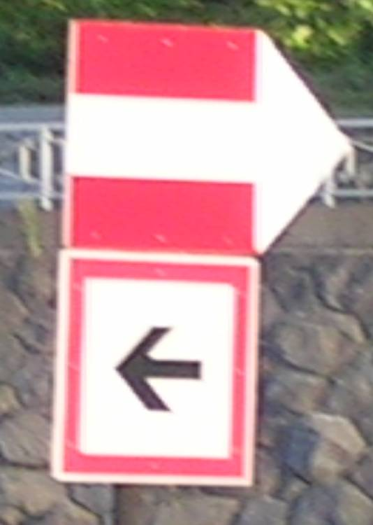 Prague, the Czech Republic. Ship transport sign.